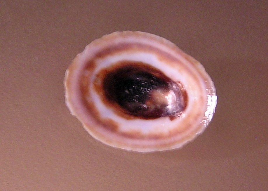 Testudinalia testudinalis, (Müller, 1776), a limpet from the family Lottiidae; Lofoten Islands, Norway